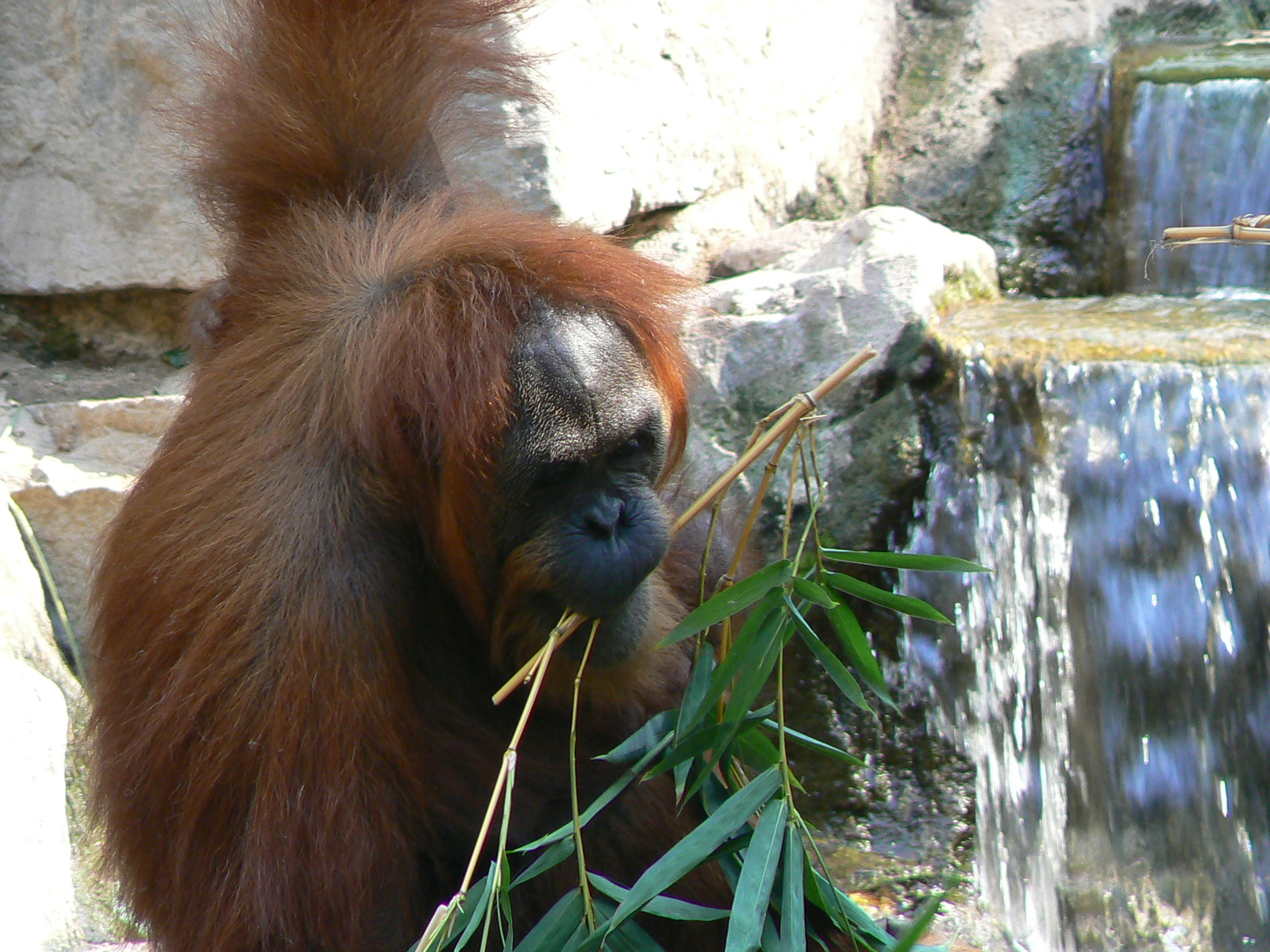 Sumatran Orangutan